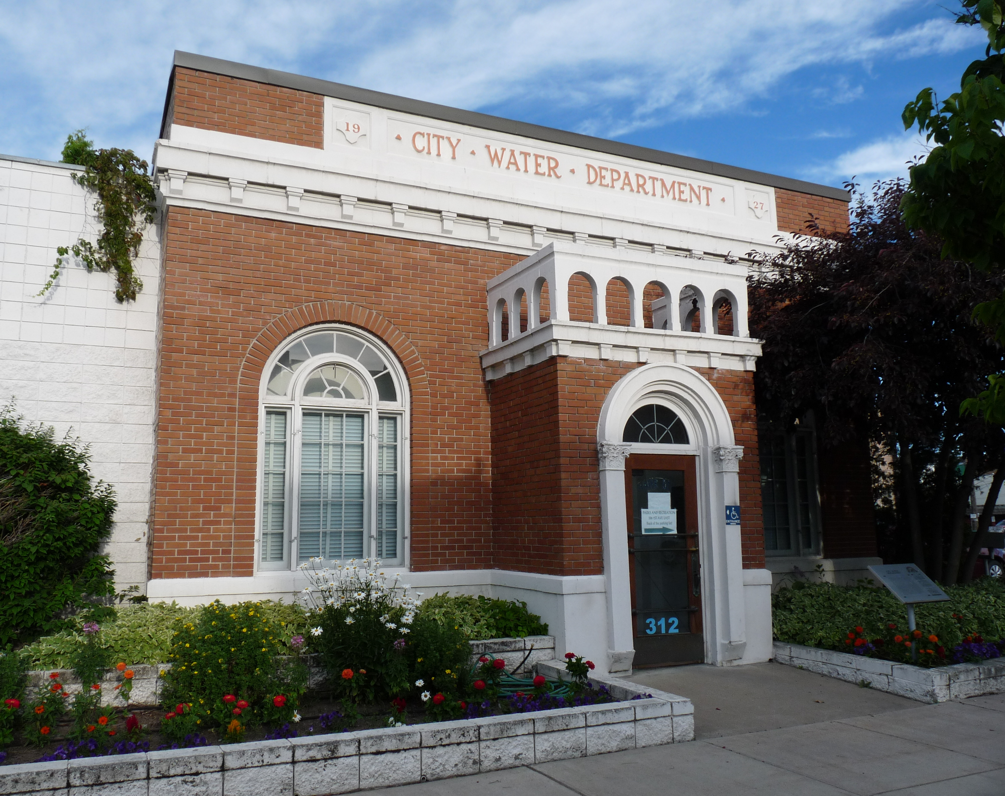 Kalispell's City Water Department built this Georgian Revival office in 1927, which once stood between the city hall and the jail.